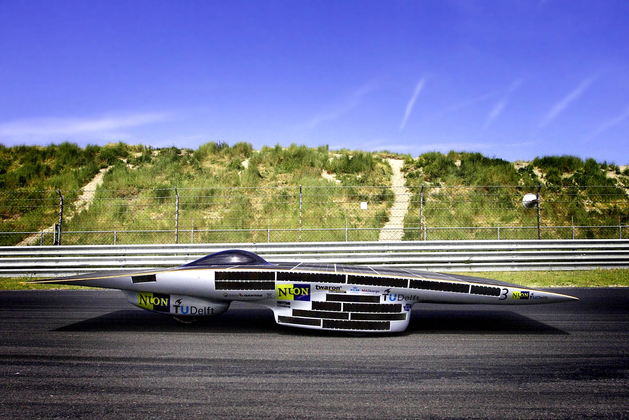 The Nuna 3 at the Zandvoort racing track during the presentation of Nuna 3 to the press